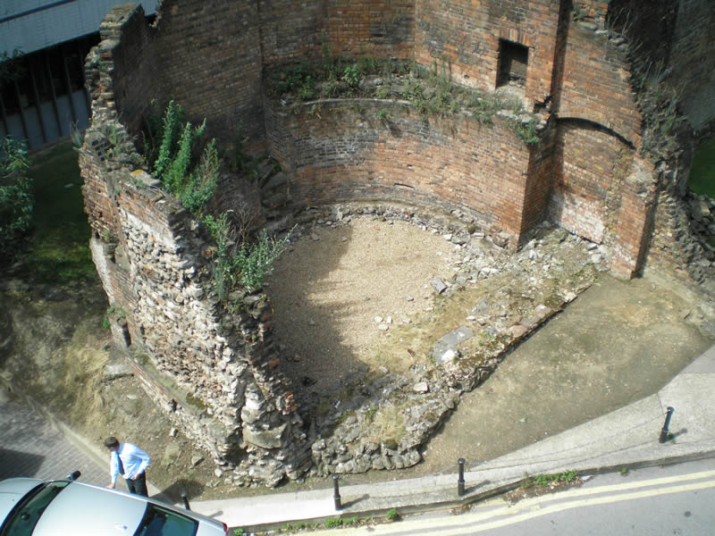 Remain of the Roman castle in London